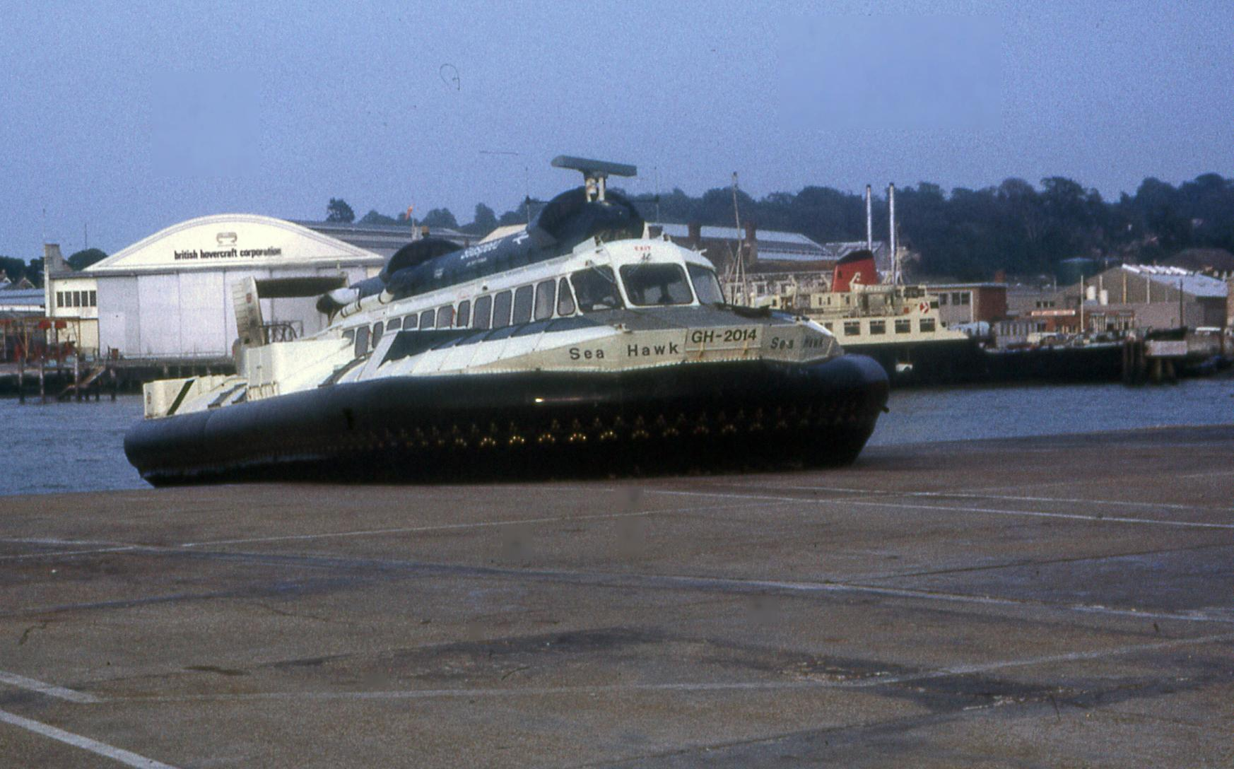 Seaspeed's Sea Hawk (GH-2014), seen arriving at Cowes, Isle of Wight in 1971. At the time hovercraft were used for a passenger service to Southampton.